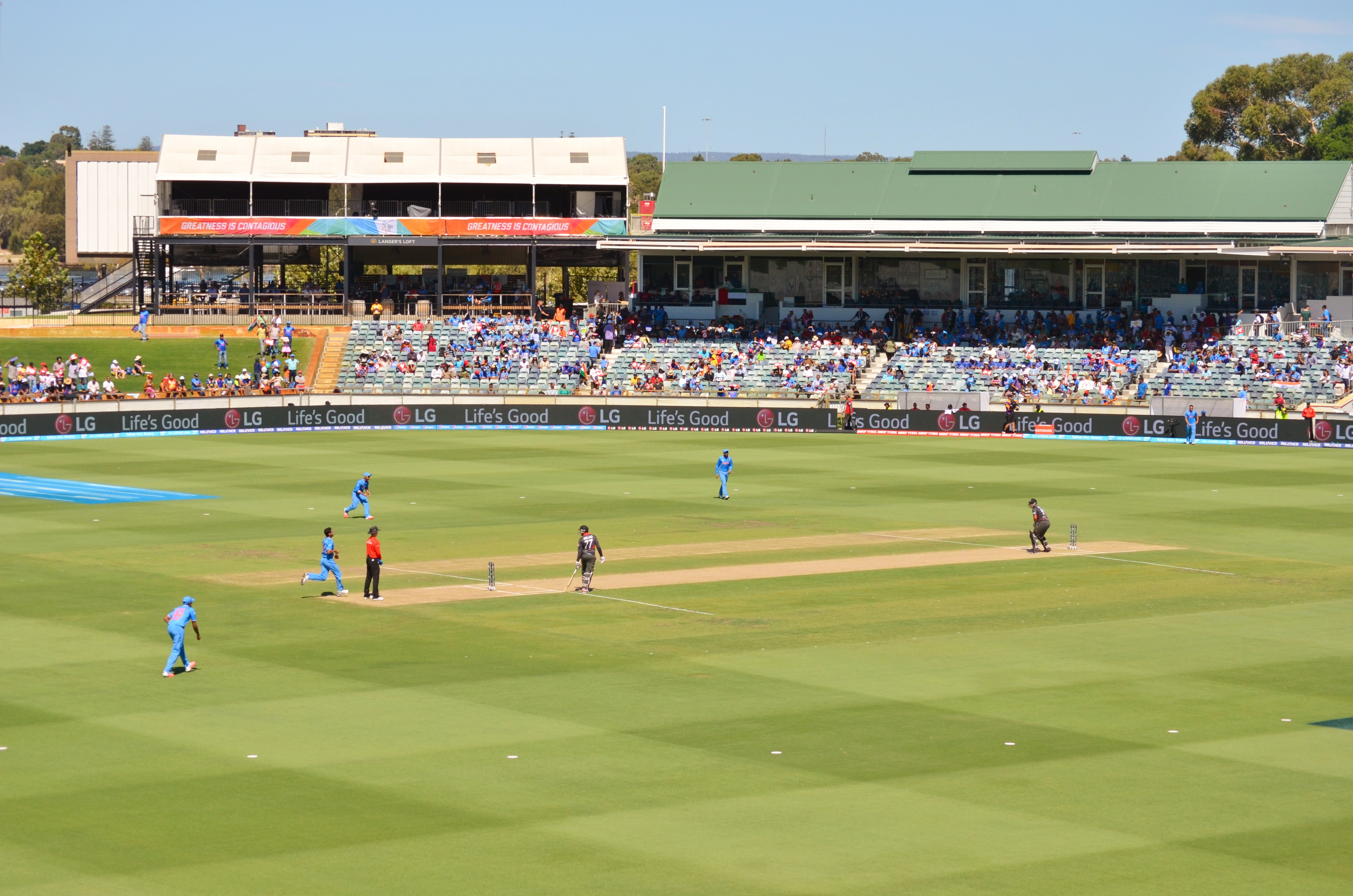 View of the WACA Ground as the United Arab Emirates team bats against India during their 2015 Cricket World Cup match.